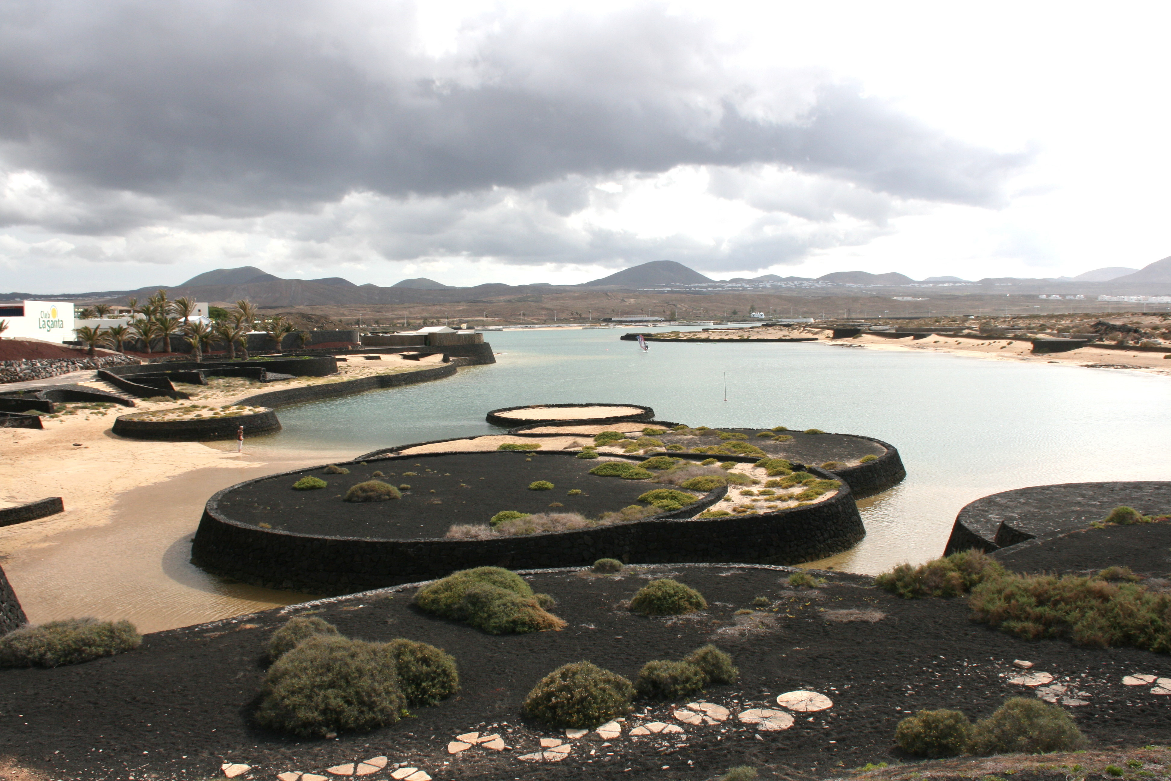 El Rio, a former salt evaporation pond now transformed into a lagoon used for sports and recreation, Diseminado la Sta Sport in La Santa, Tinajo, Lanzarote, Canary Islands